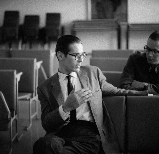 Photograph of the American Jazz pianist Bill Evans (1929–1980) during his visit to Finland.